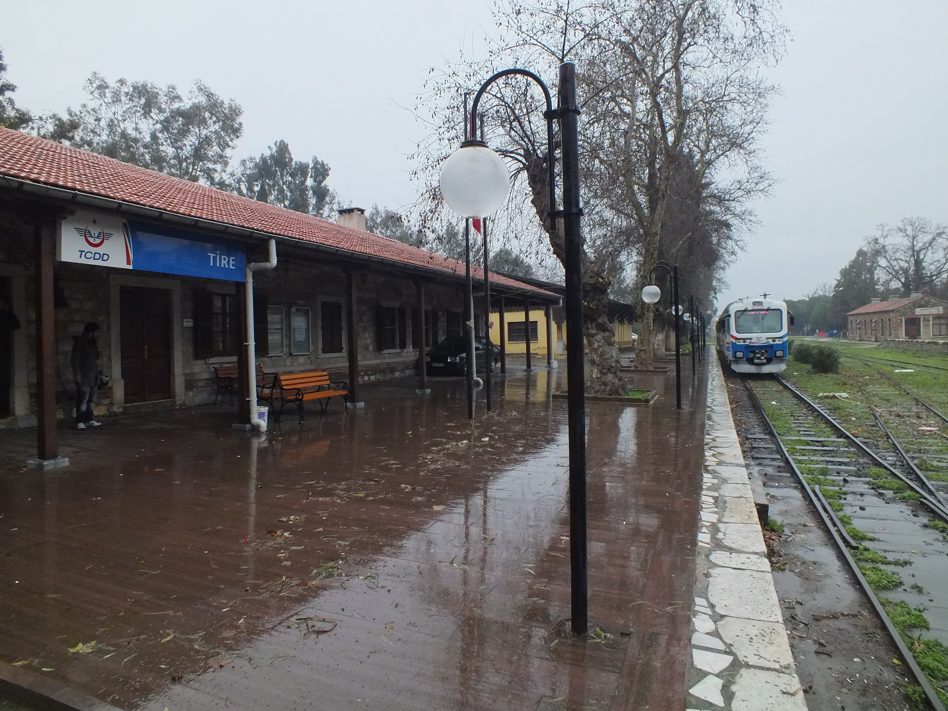 A regional train from Izmir at Tire station after arriving.